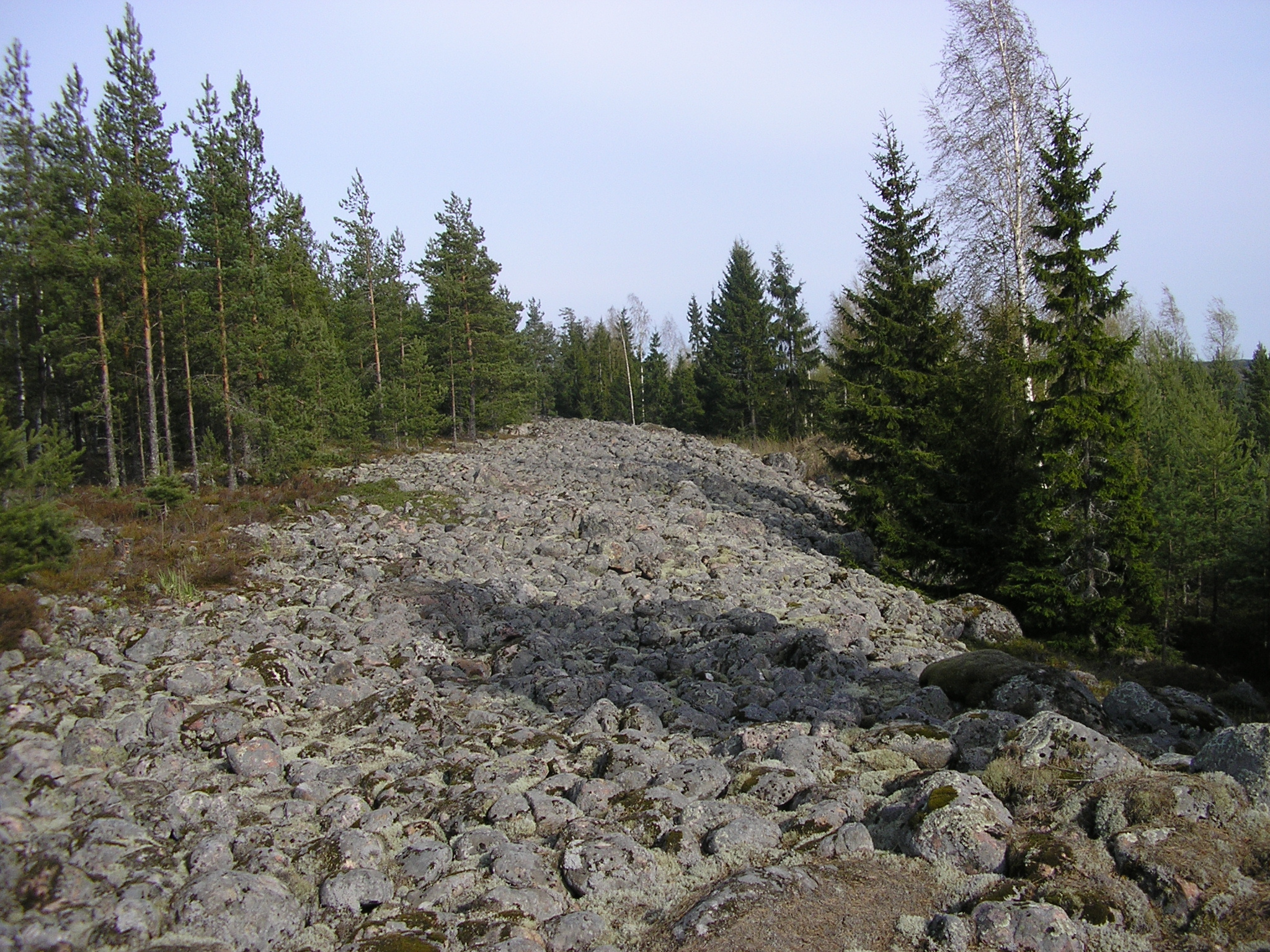 Jätinkatu, "Giant's Street" - an ancient seaside that is nowadays located high uphill in a gravel pit [05-2007]